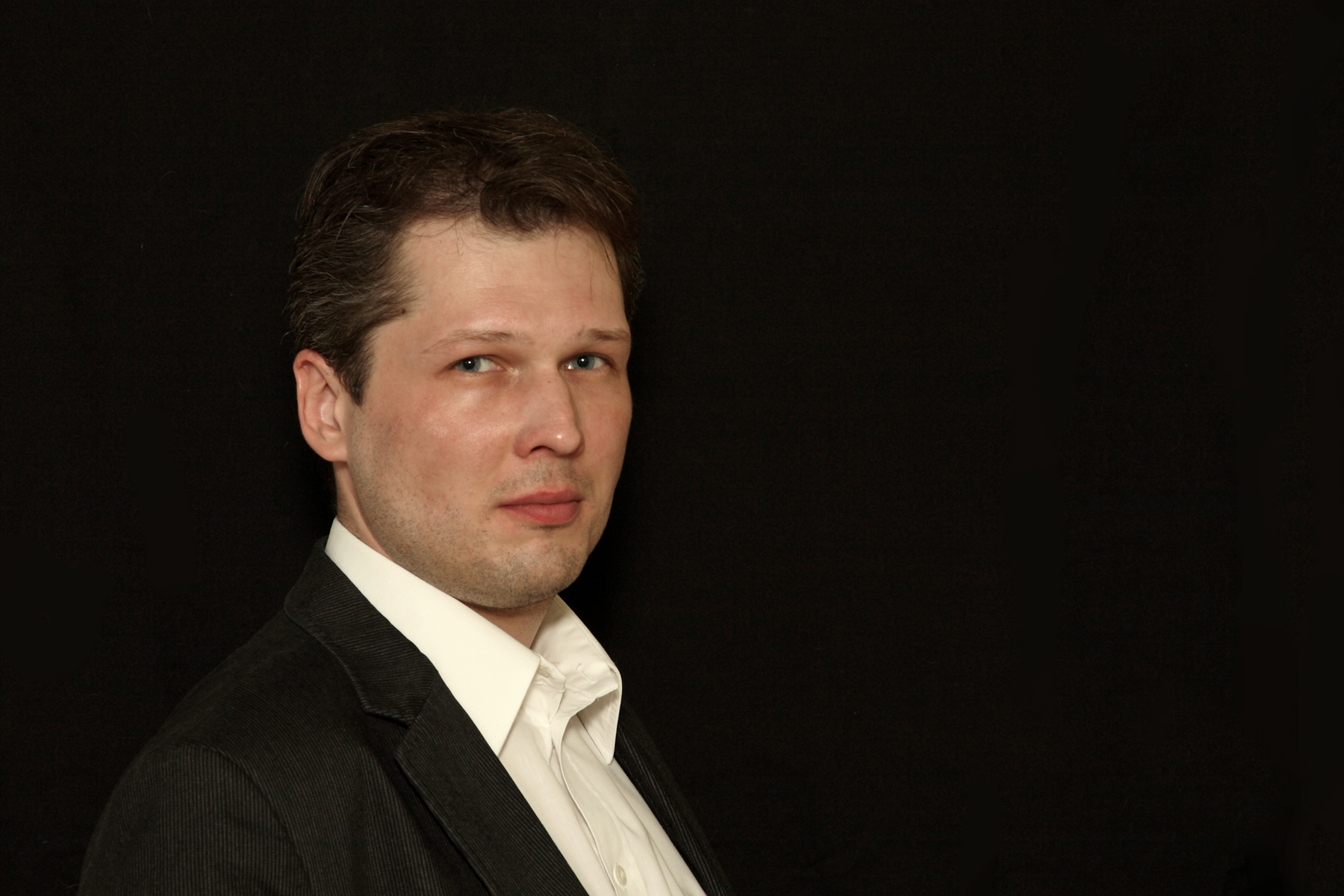 Reio Avaste, Estonian architect